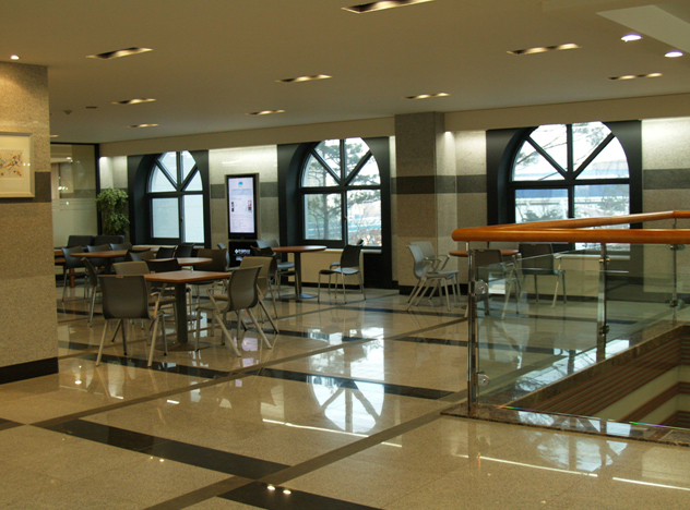 Shinhan Lounge in Hanyang University